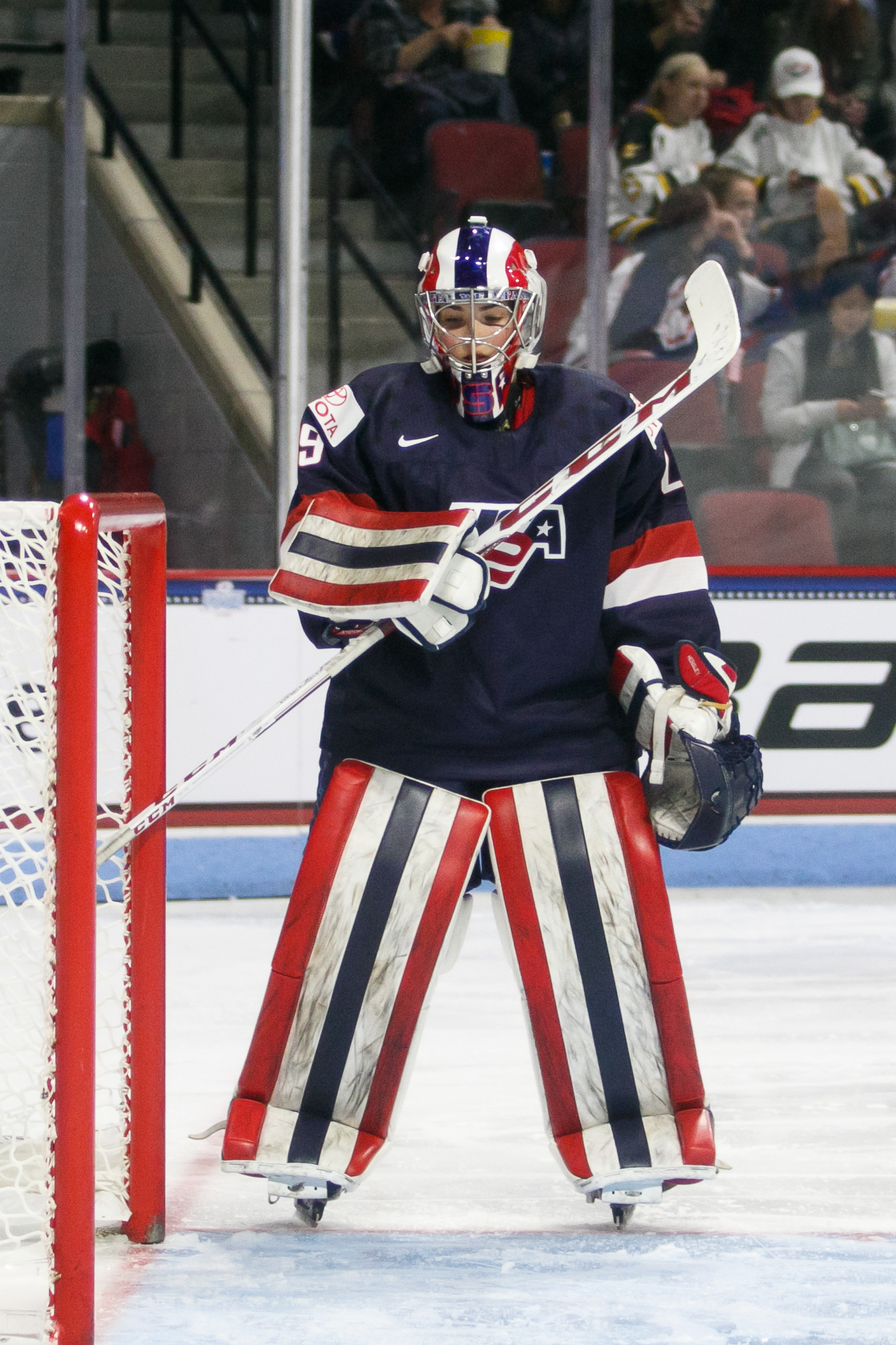 Nicole Hensley playing for Team USA in 2017